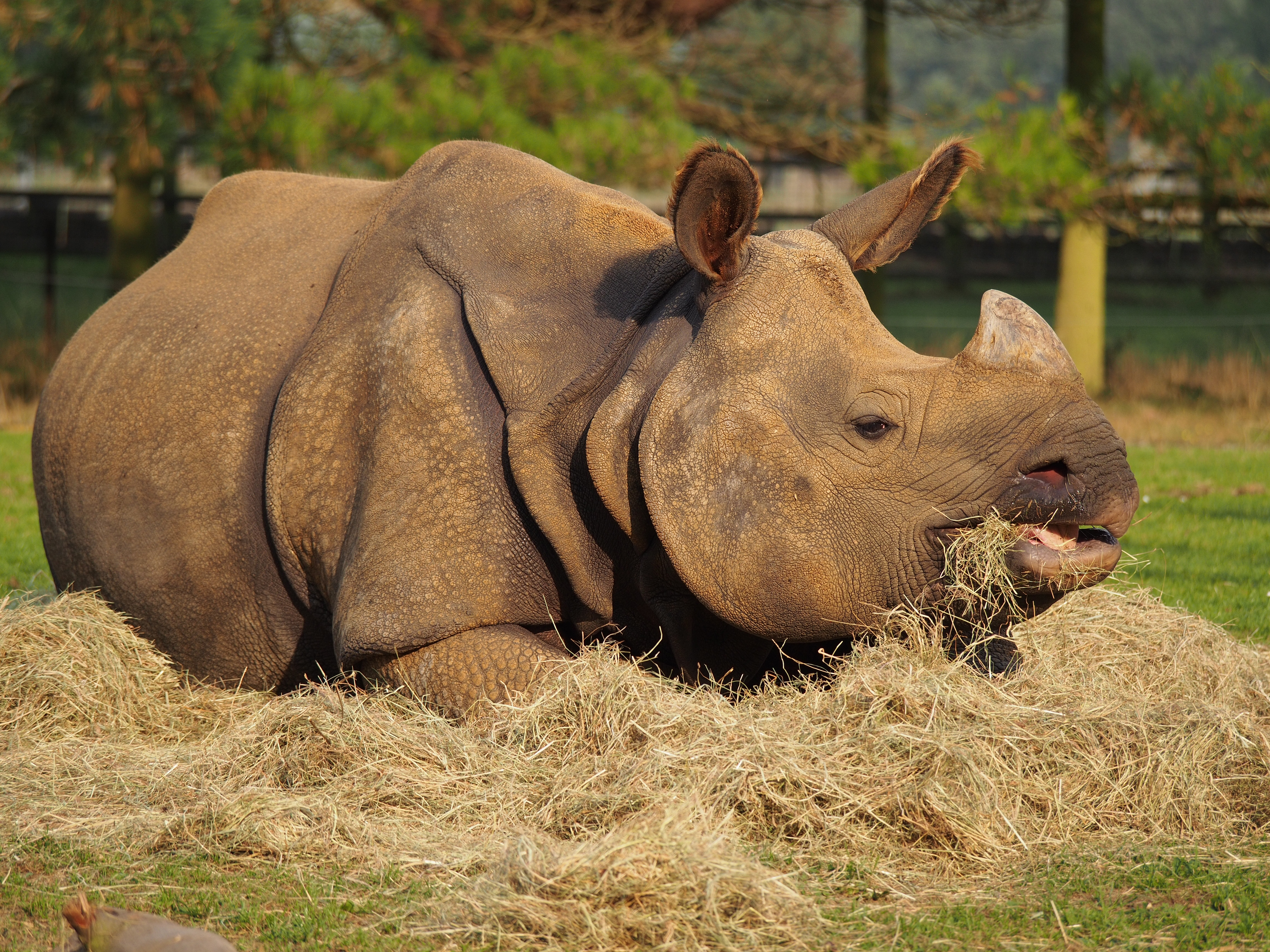 Indian Rhino, Rhinoceros unicornis, in the late afternoon sunshine at Whipsnade Zoo